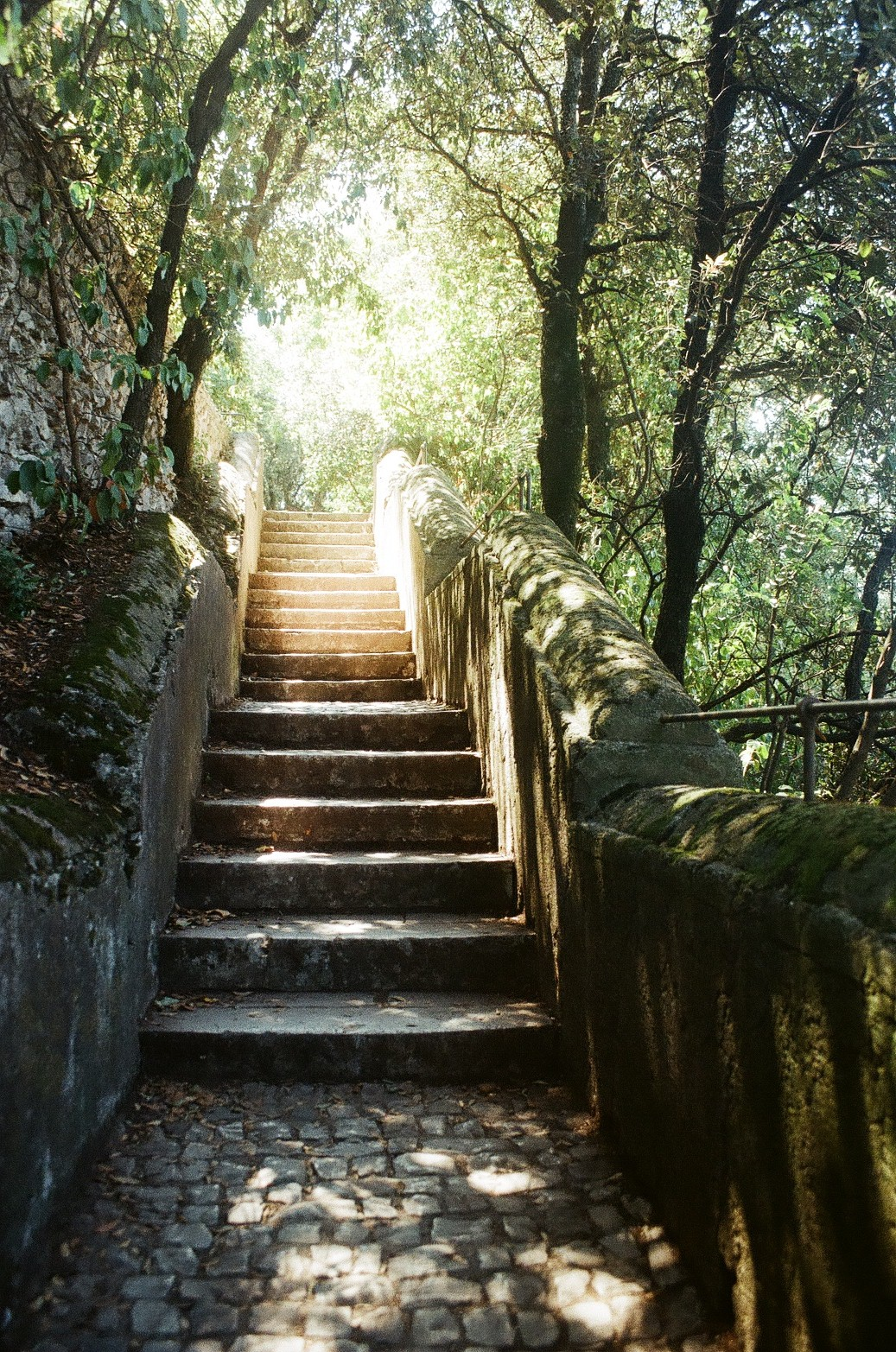 Stairs in Villa Gregoriana, september 2011